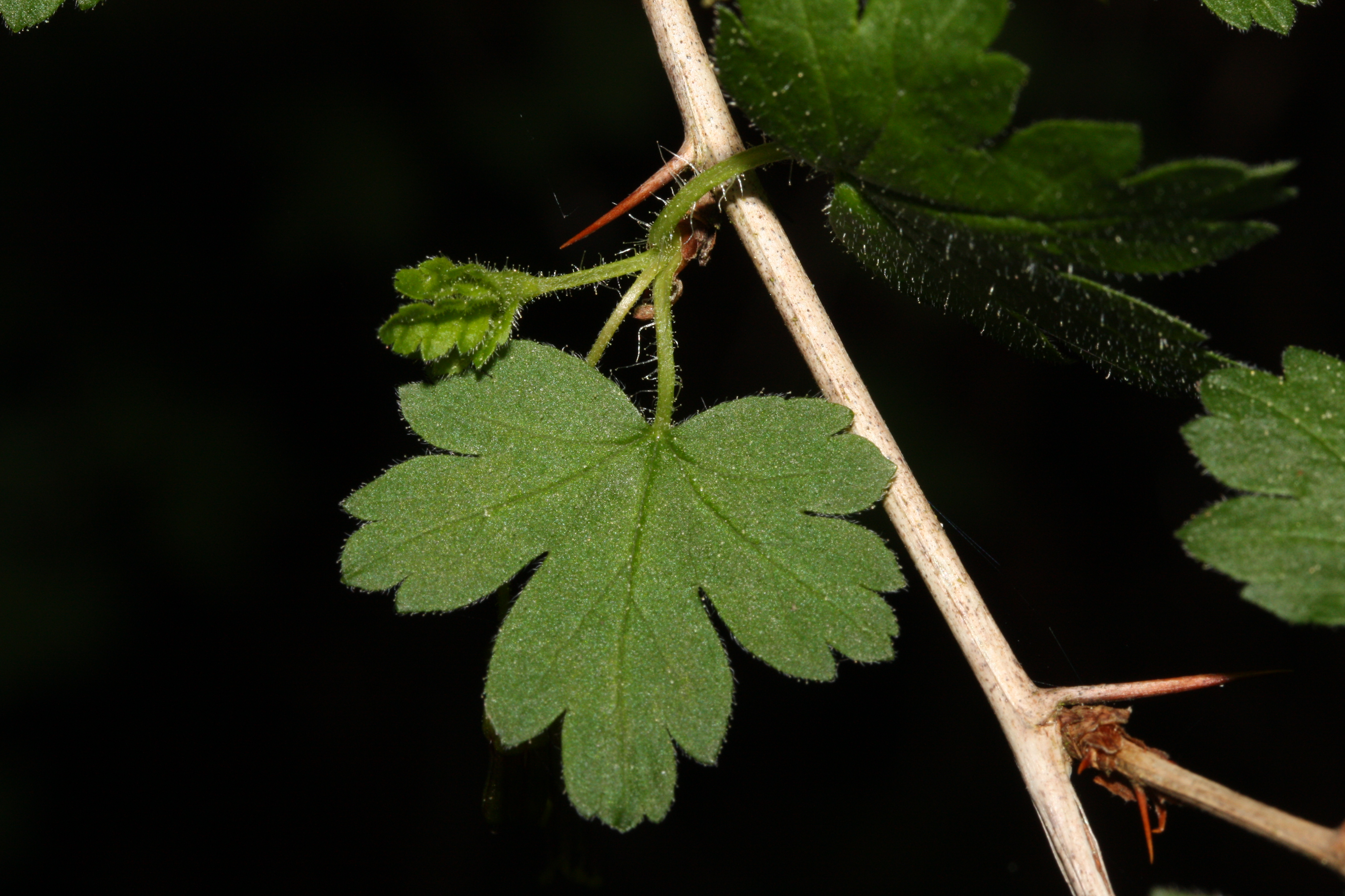 Spreading Gooseberry, Coast Black Gooseberry